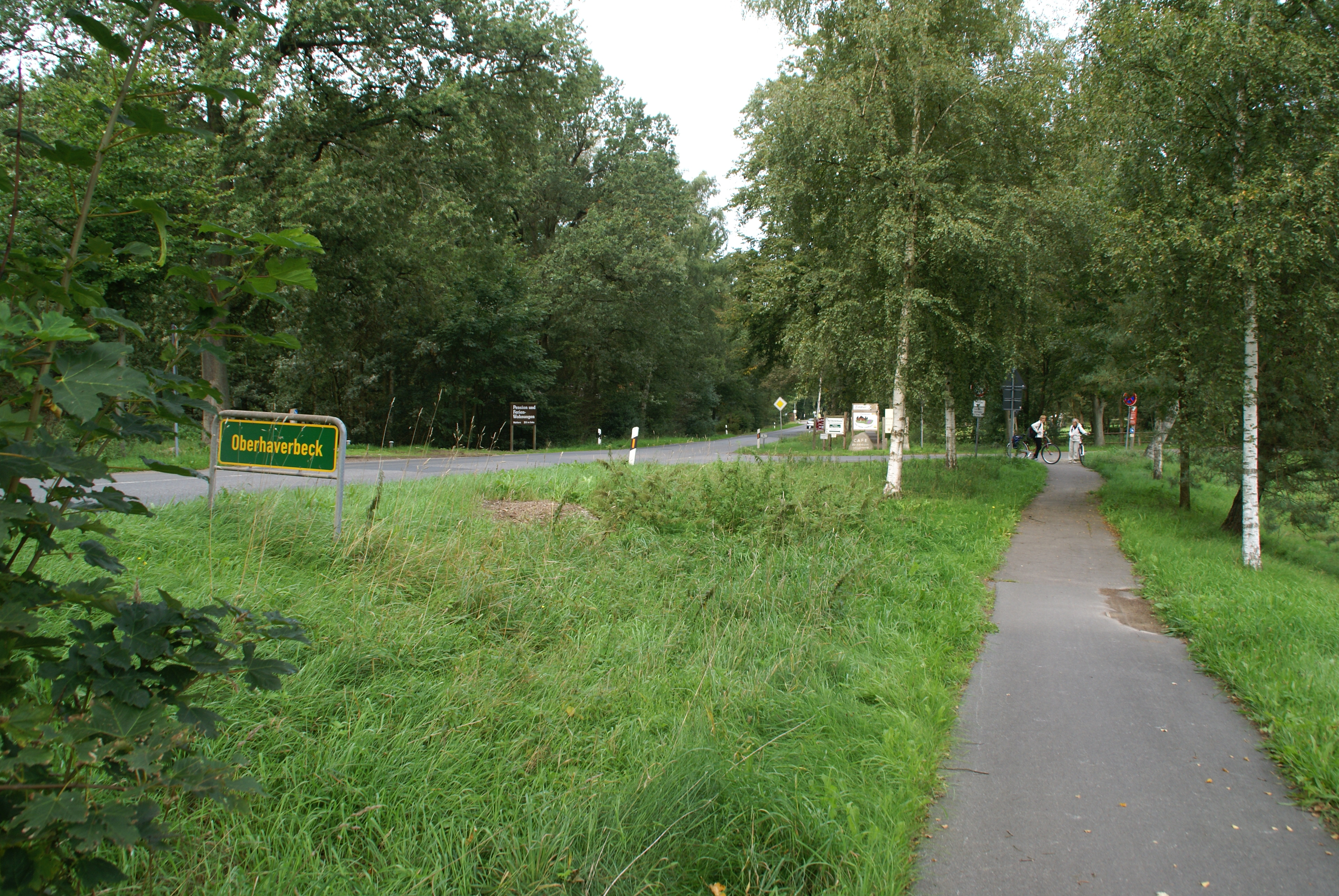 Oberhaverbeck (Germany)